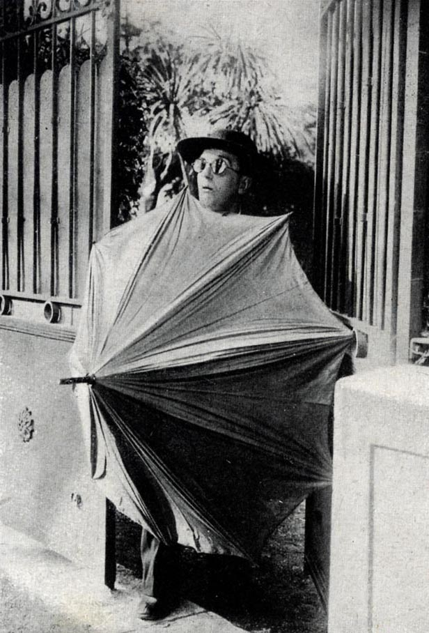 Screenshot from the film Parisette by Louis Feuillade